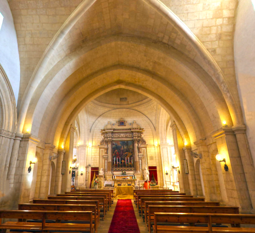 The nave of the chapel of St Gregory in Zejtun